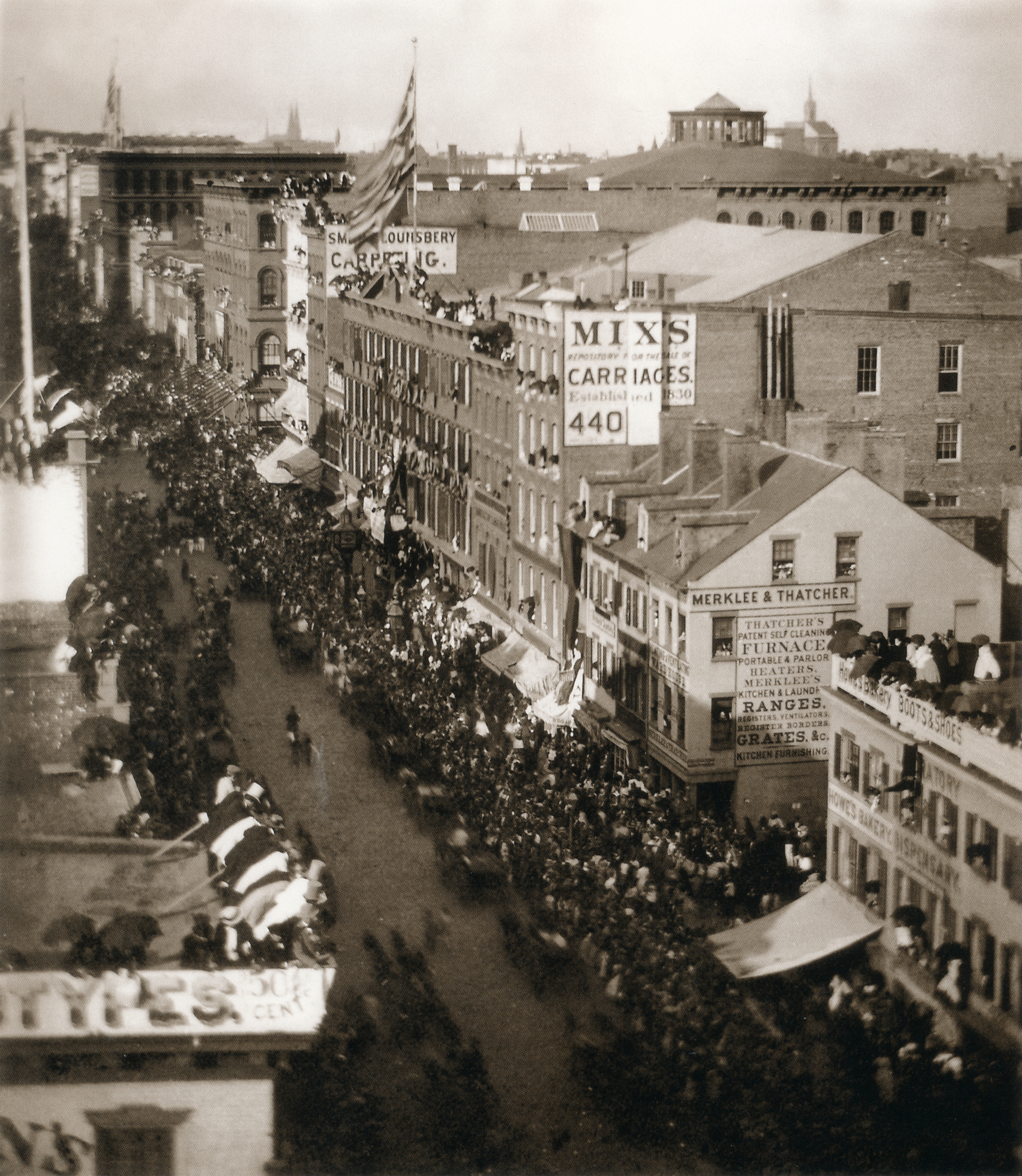 Parade on Broadway, New York City, to celebrate the completion of the transatlantic telegraph cable.